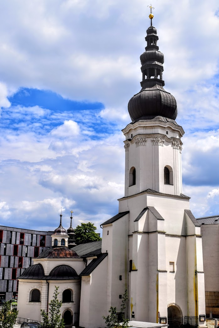 The Church of St. Wenceslas (Kostel svatého Václava) in Ostrava